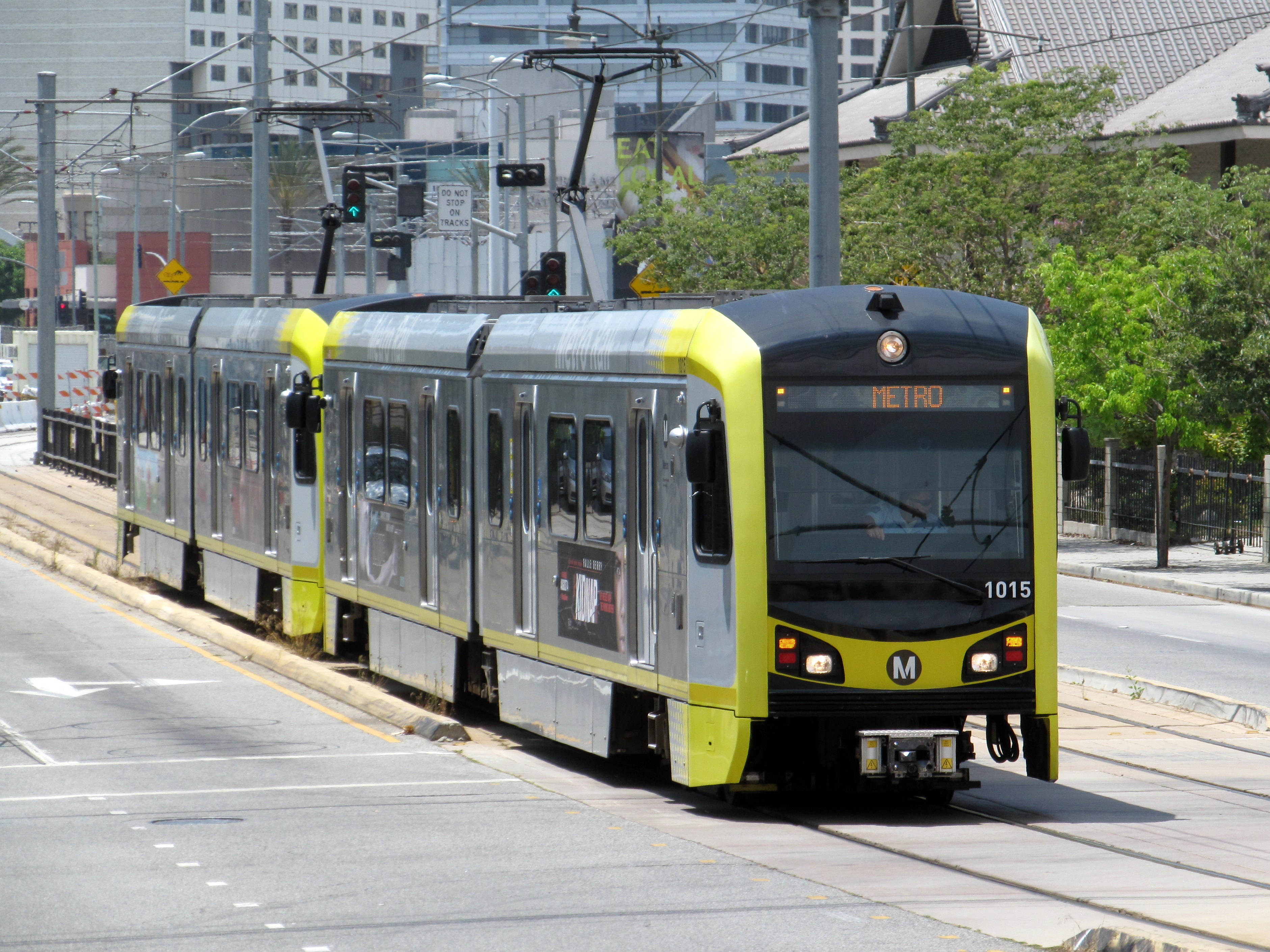 Gold Line train on East 1st Street in July 2017